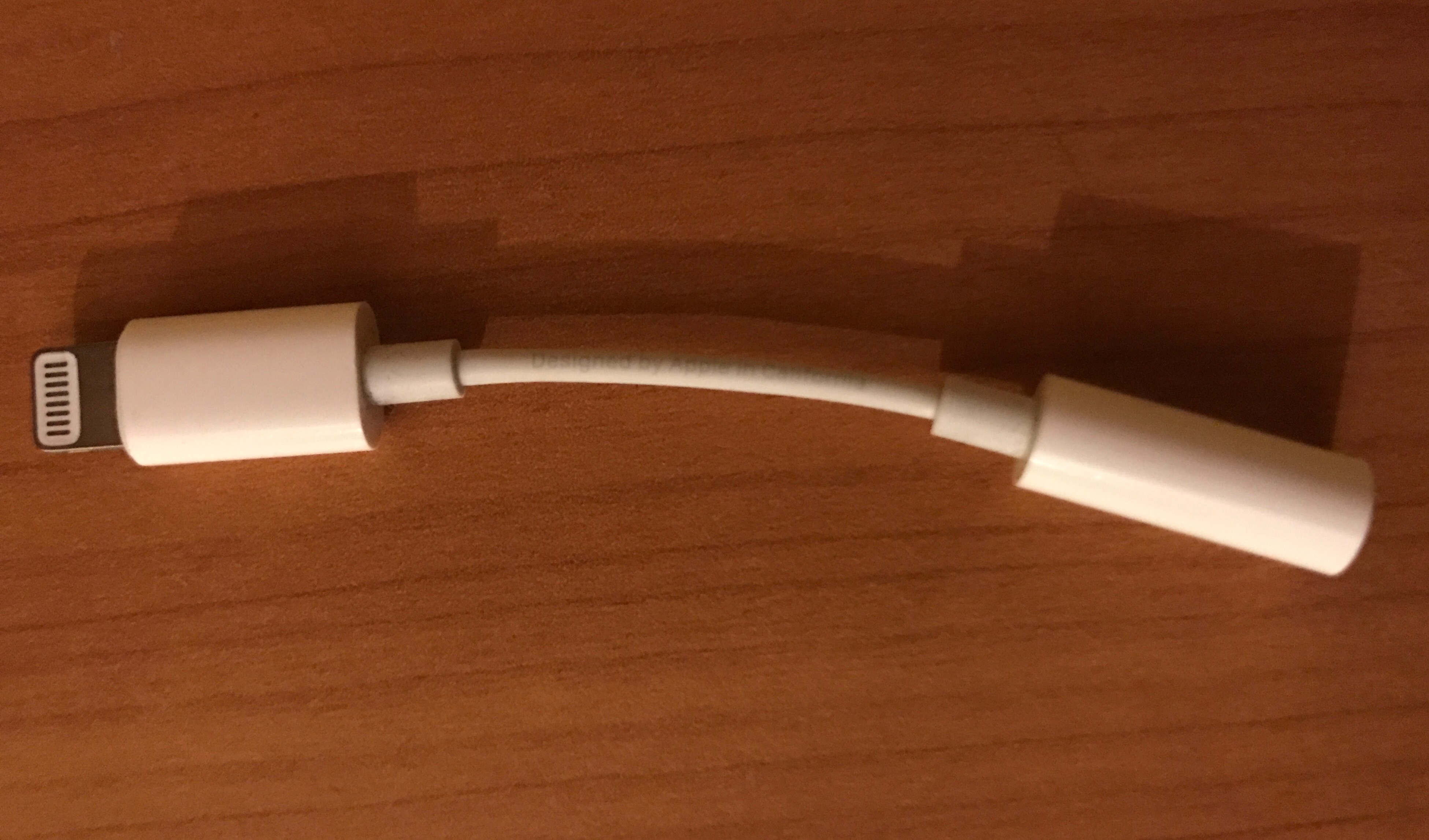 Adaptor from the Lightning to the 3.5 mm Jack.